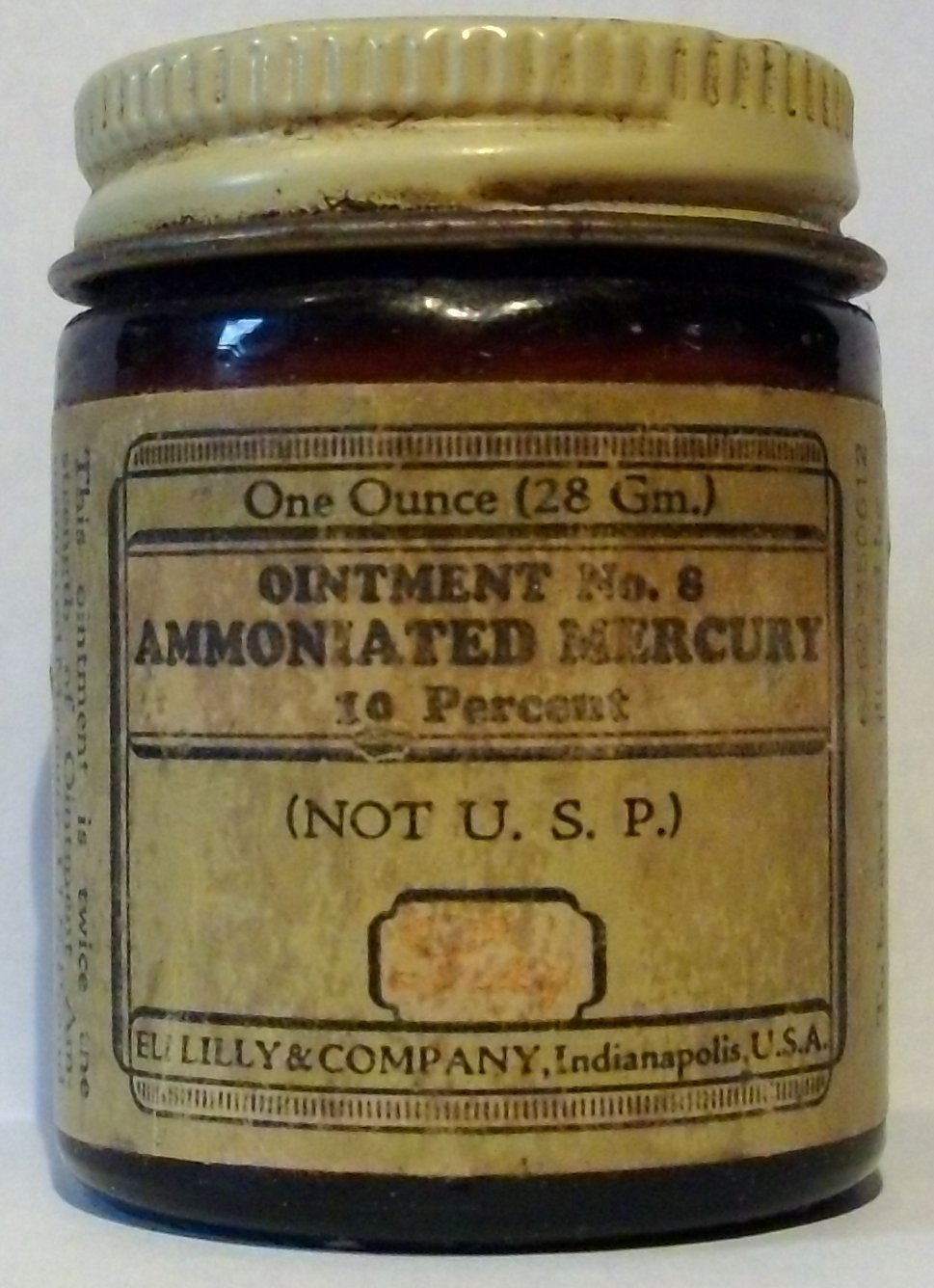 Eli Lilly & Company - Ointment No. 8 - Ammoniated Mercury 10%, 1 ounce (28 grams), 6269-350612